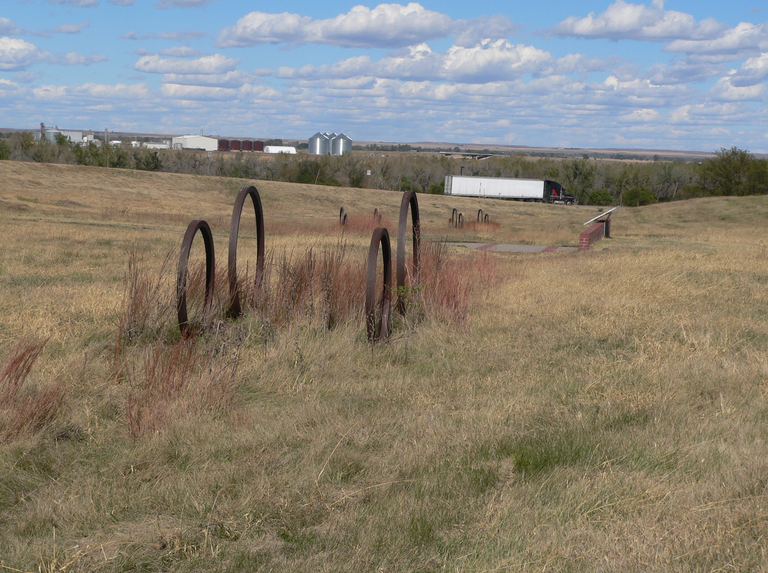 View from O'Fallon's Bluff, southeast of Sutherland, Nebraska; looking northeast. The sets of wheels mark ruts left by 19th-century pioneers crossing the bluffs. The ruts run downhill toward the left, toward the semi-trailer (which is on Interstate 80).